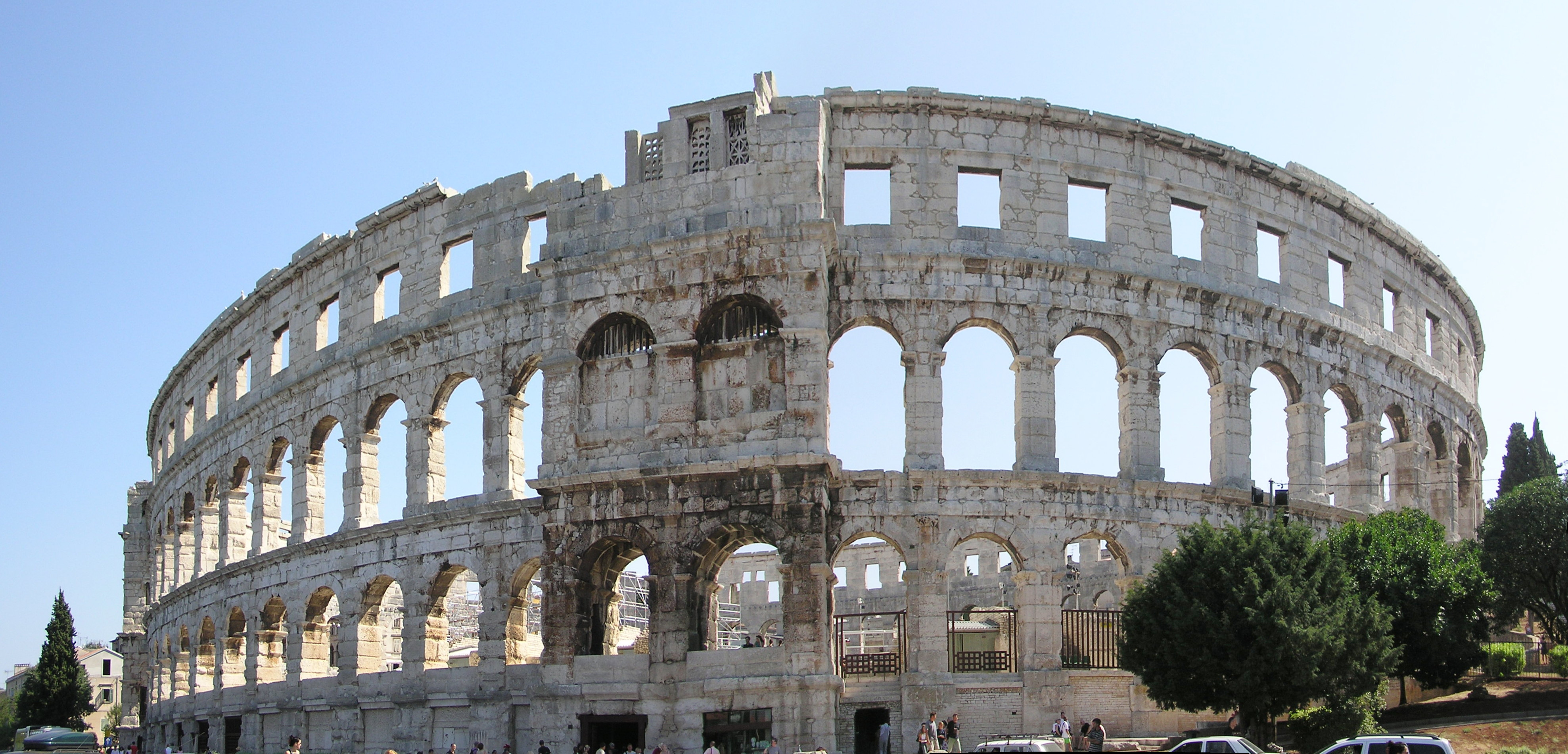 Roman Arena in Pula, Istria, Croatia